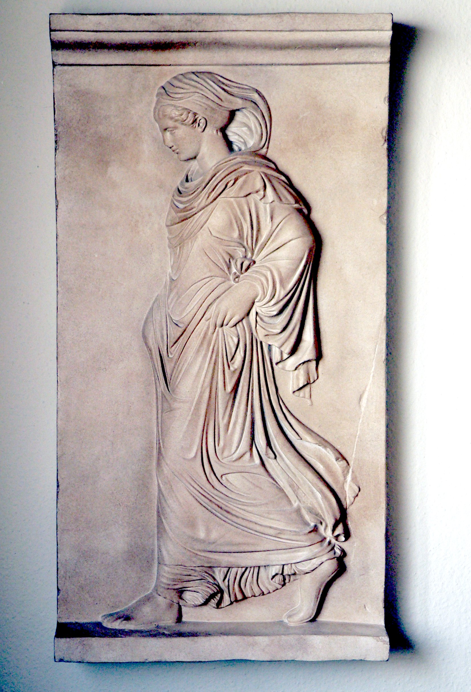 Photograph of a cast (scale 1:1) of the Gradiva in the priv. collection of the photographer.[1] The Gradiva (Latin: She who walks) forms part of a composition of three female figures, the Aglaurids (Agraulids), deities of the nightly dew, from a neo-Attic Roman bas-relief, probably after a Greek original from the 4th century B.C..The Gradiva fragment is held in the collection of the Vatican Museum Chiaramonti, Rome; Cat. No. 1284. The left figure in this relief acquired its name from a novella by Wilhelm Jensen: Gradiva. A Pompeian Fantasy (1903). The actions and dreams of the protagonist of this novella were famously analysed by Sigmund Freud in his study: Delusion and Dream in Jensen's Gradiva(1907). Hauser (1903, p.100) [2] gives the height of the first Agraulide (Gradiva) as 0.64m, the height of the relief plate as 0.735m. ↑ see User_talk:Rama#Category:Gradiva ↑ Jahreshefte des Österr. Archäol. Institutes Bd. VI, 1903, 79-107